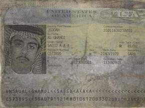 Saeed al-Ghamdi Visa recovered from the United Airlines Flight 93 crash site.